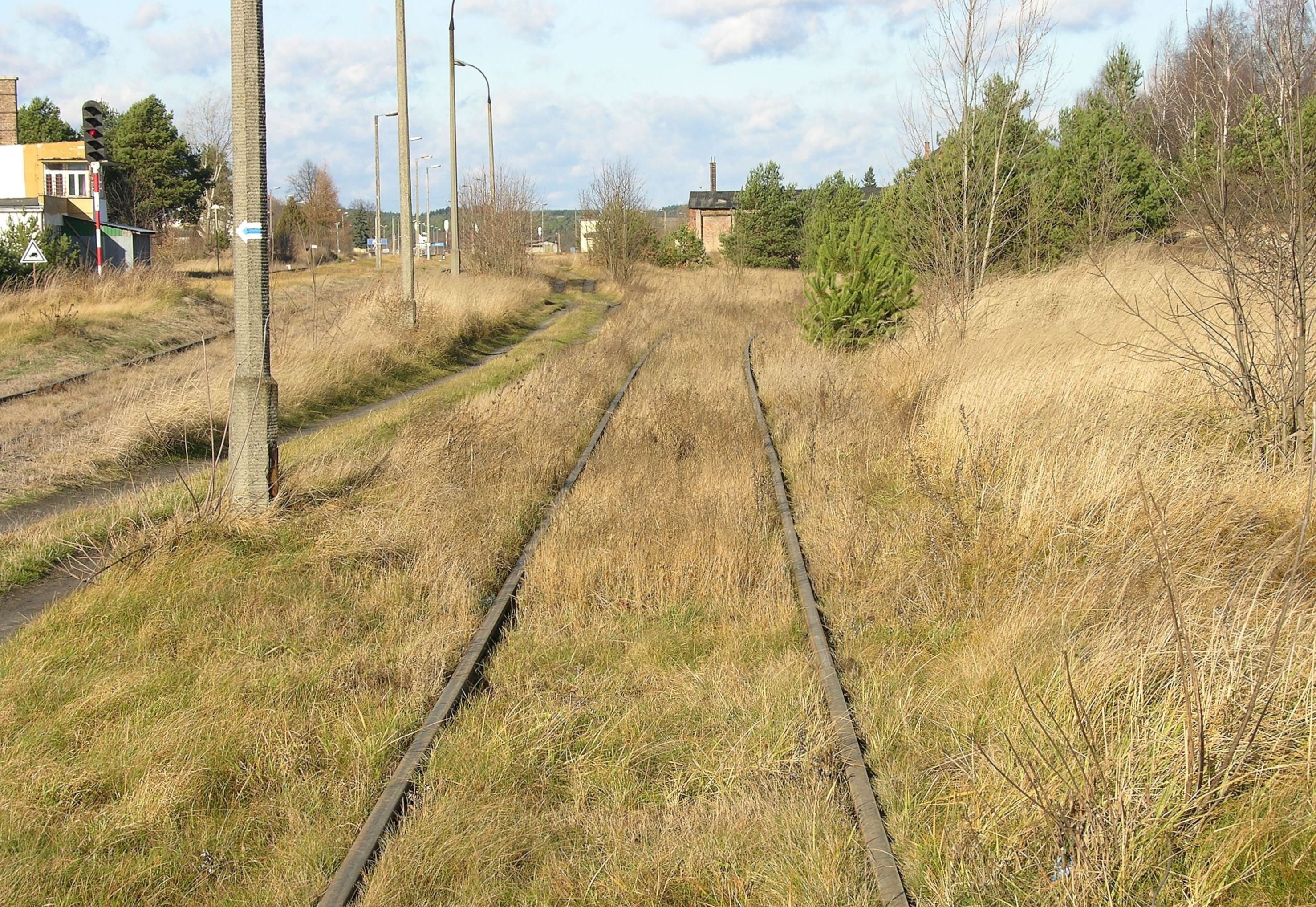 Railway siding at the former Belzec death camp